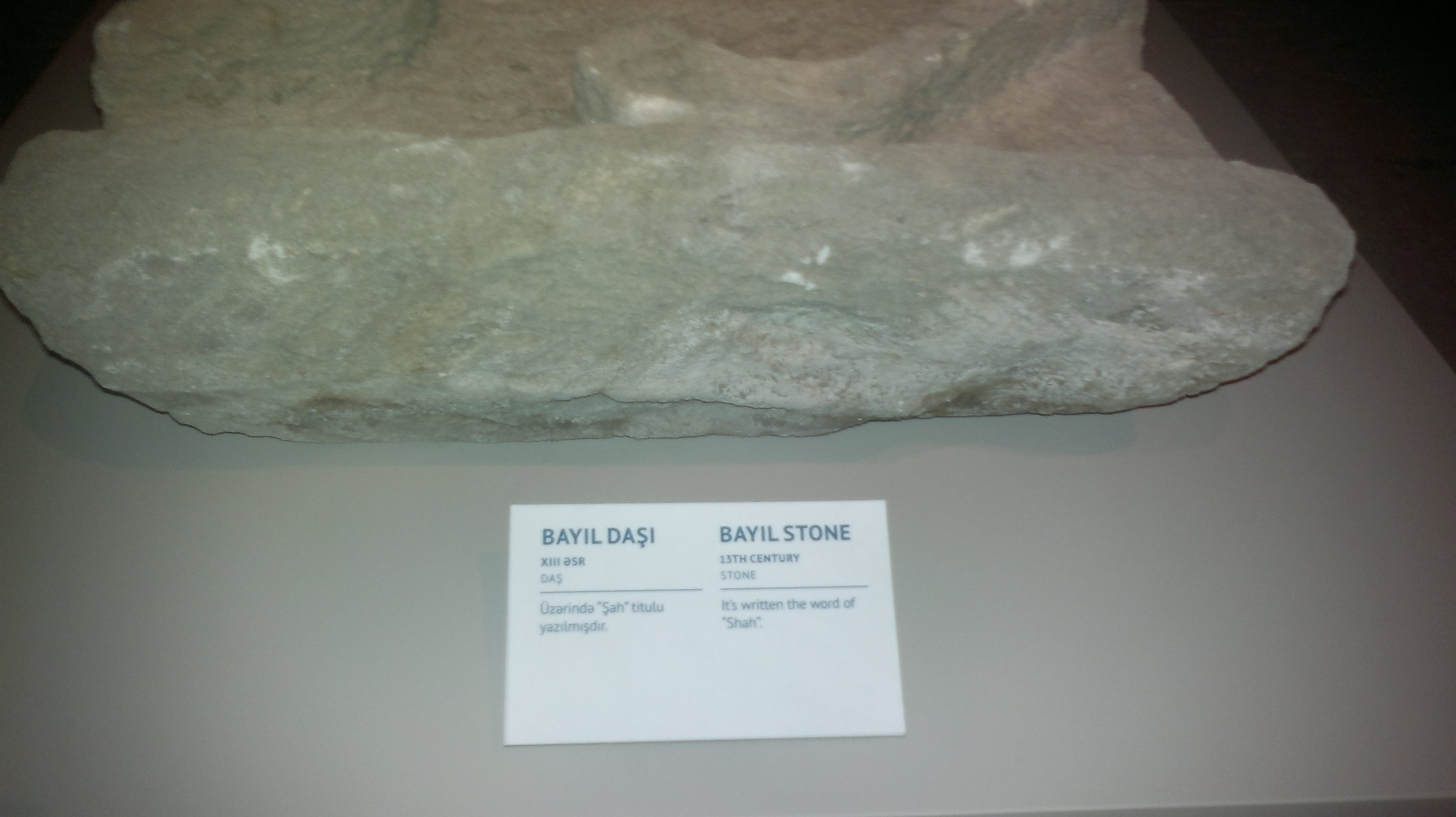 Description of Bayil stone with the name Shah on it.